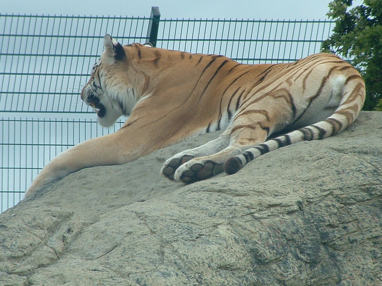 Tiger at the Isle of Wight Zoo.